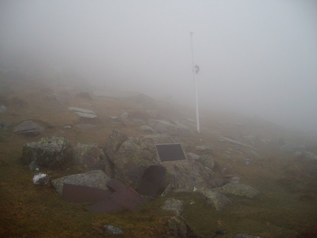 Memorial Plaque Memorial erected in 1975 in remembrance of 31 American Airmen who lost their lives in a crash at this location in 1945, most probably in the same type of weather this picture was taken in.